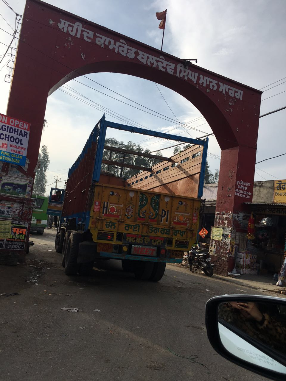 Shaheed Comrade Baldev Singh Marg